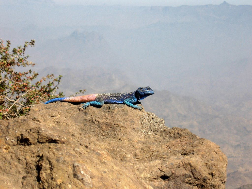 Chameleon in Haraz mountains